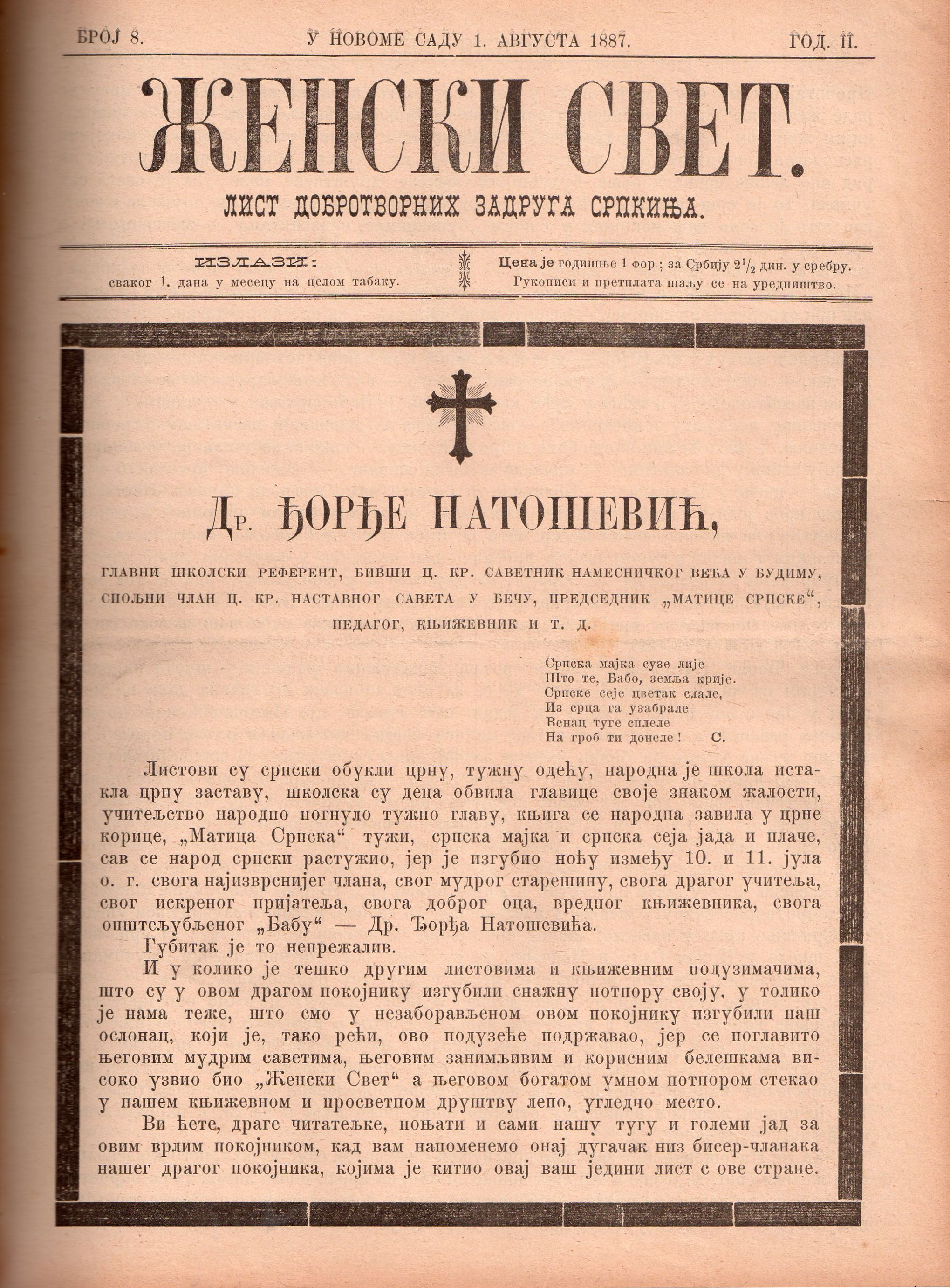 Front page Ženski svet, magazine, number 8 for 1887, Novi Sad, Djordje Natosevic necrology.